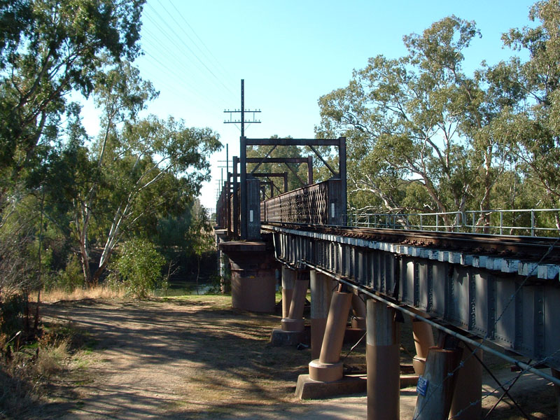 Wrought Iron Lattice Railway Bridge over the Murrumbidgee River at Wagga Wagga